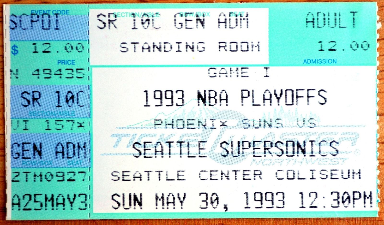 A ticket for Game 4 of the 1993 Western Conference Finals featuring the Phoenix Suns versus the Seattle SuperSonics at the Seattle Center Coliseum on May 30, 1993. The SuperSonics defeated the Suns 120-101 in Game 4 but the Suns eventually won the series 4-3.